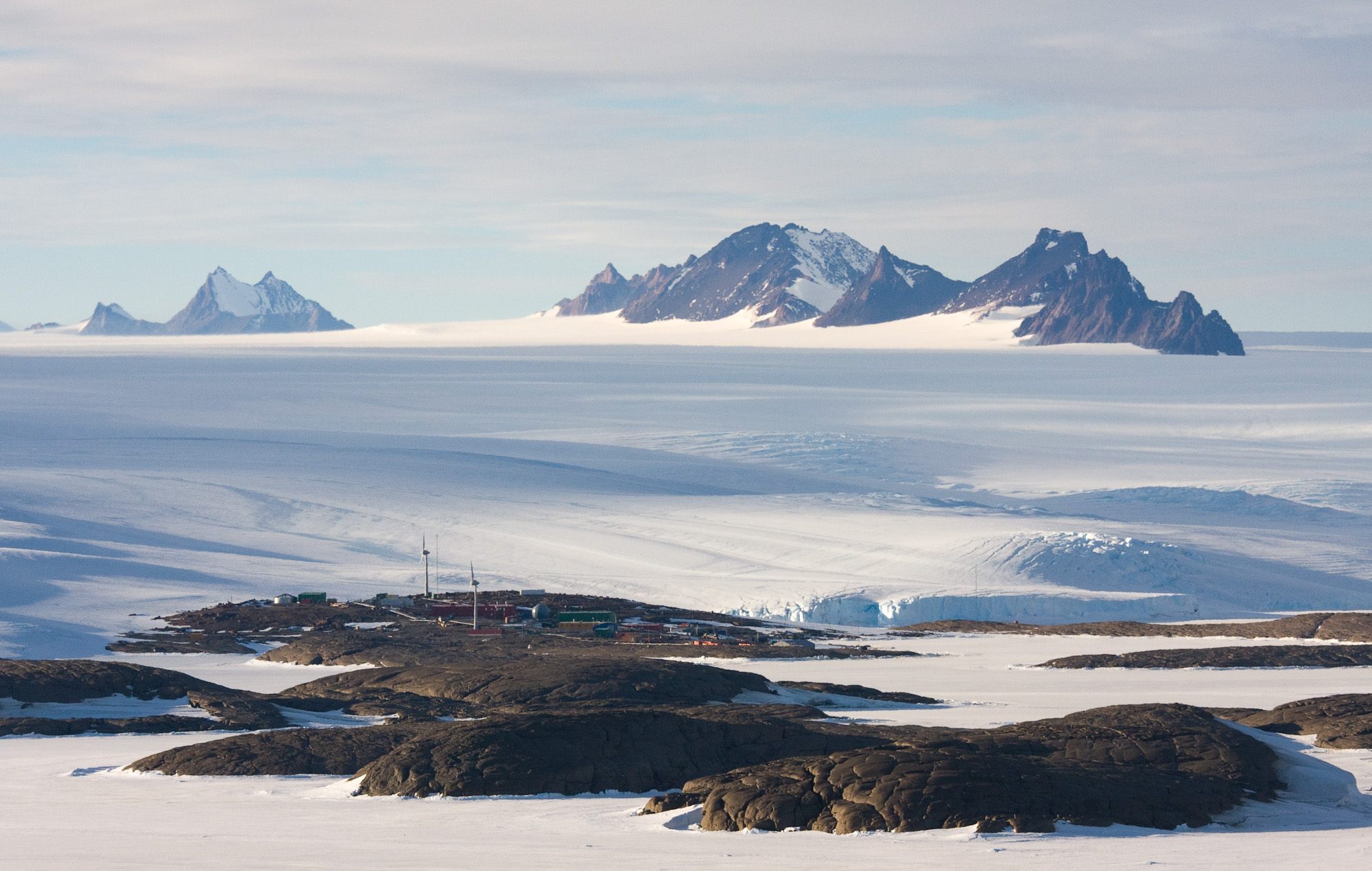 Mawson Station (Australia) from Welch Island. 5 am, December 26, 2008.